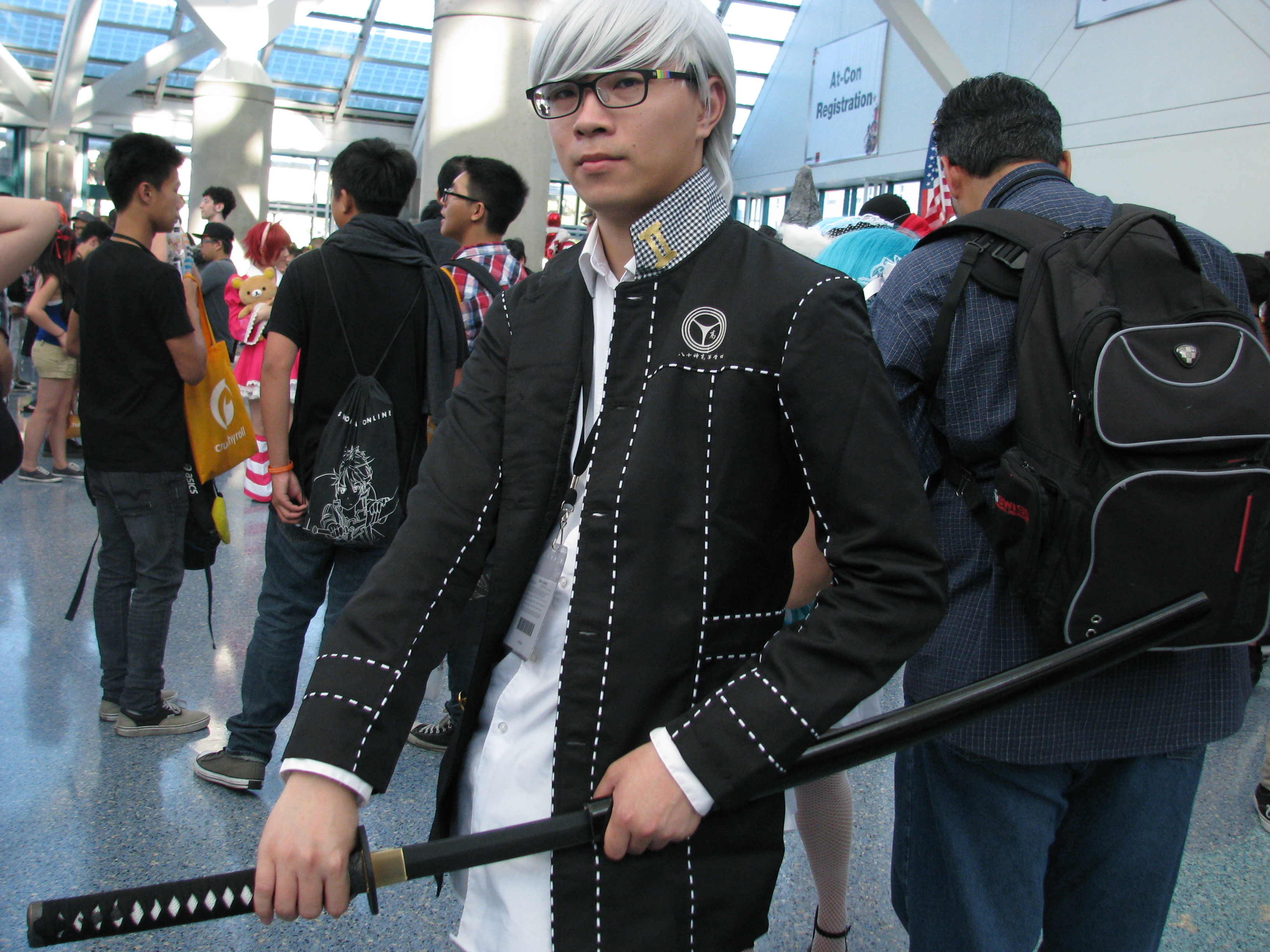 The Brotagonist [or Yu Narukami] from Persona 4